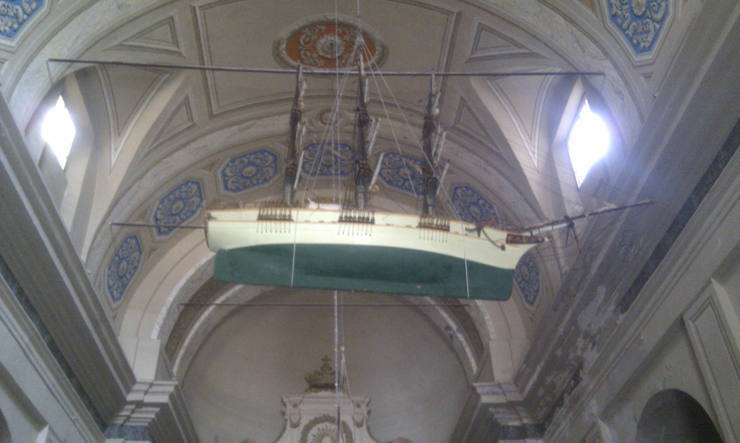 Church of Sant'Eramu in Ajaccio (Corsica)